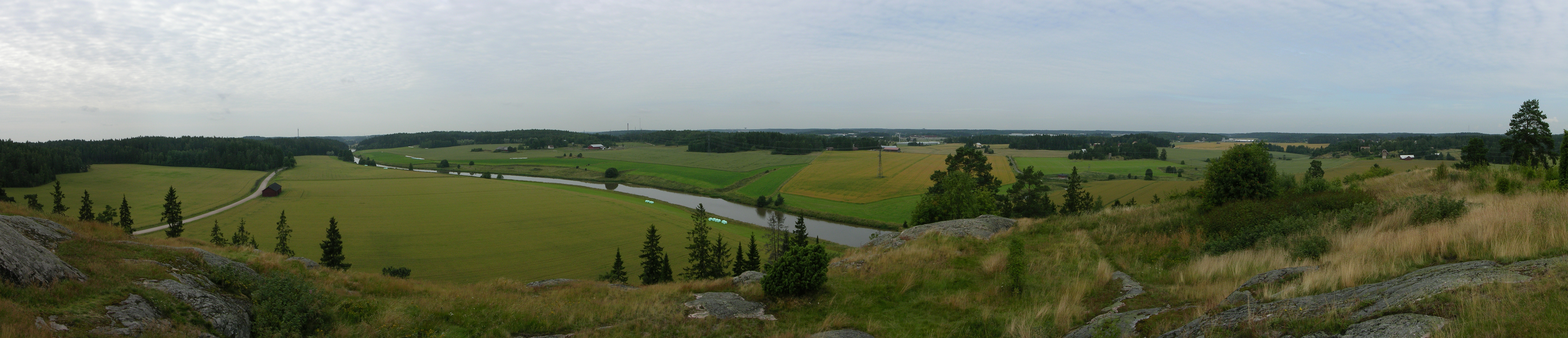 View from the summit of the Old Castle of Lieto.